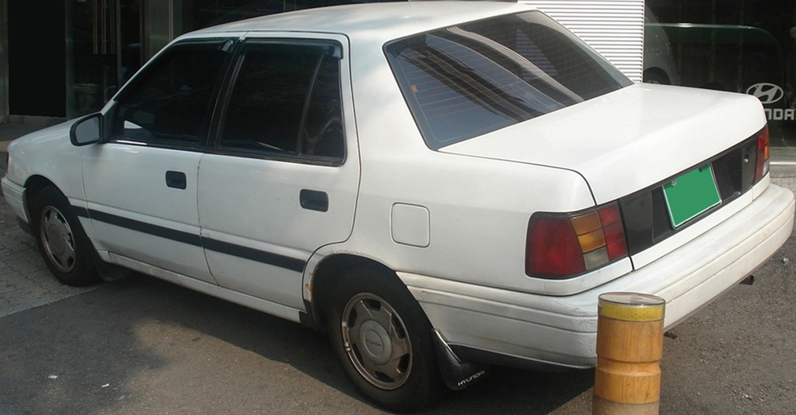 Hyundai Excel